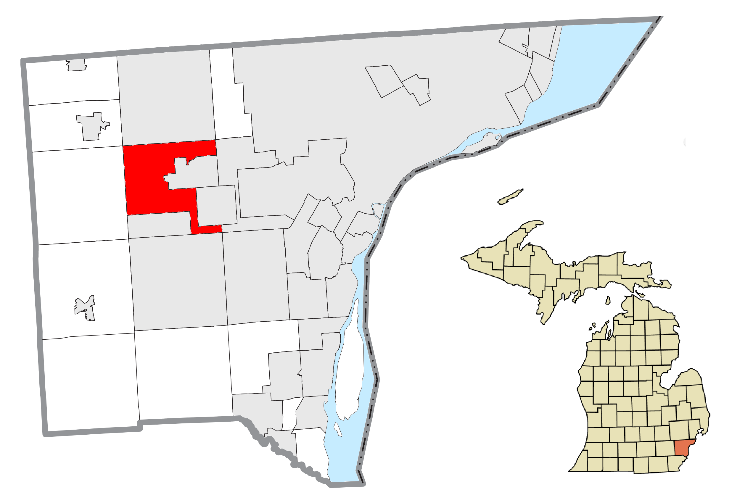 Westland, MI